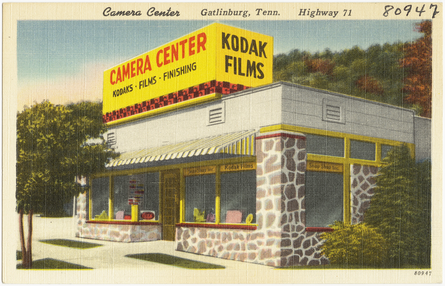 File name: 06_10_019417 Title: Camera Center, Gatlinburg, Tenn., Highway 71 Created/Published: Pub. by Standard Souvenirs & Novelties, Inc., Knoxville, Tenn. Date issued: 1930 - 1945 (approximate) Physical description: 1 print (postcard) : linen texture, color ; 3 1/2 x 5 1/2 in. Genre: Postcards Subjects: Commercial facilities Notes: Title from item. Collection: The Tichnor Brothers Collection Location: Boston Public Library, Print Department Rights: No known restrictions